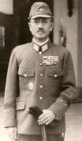 Japanese General Tanaka Hisakazu personal photo